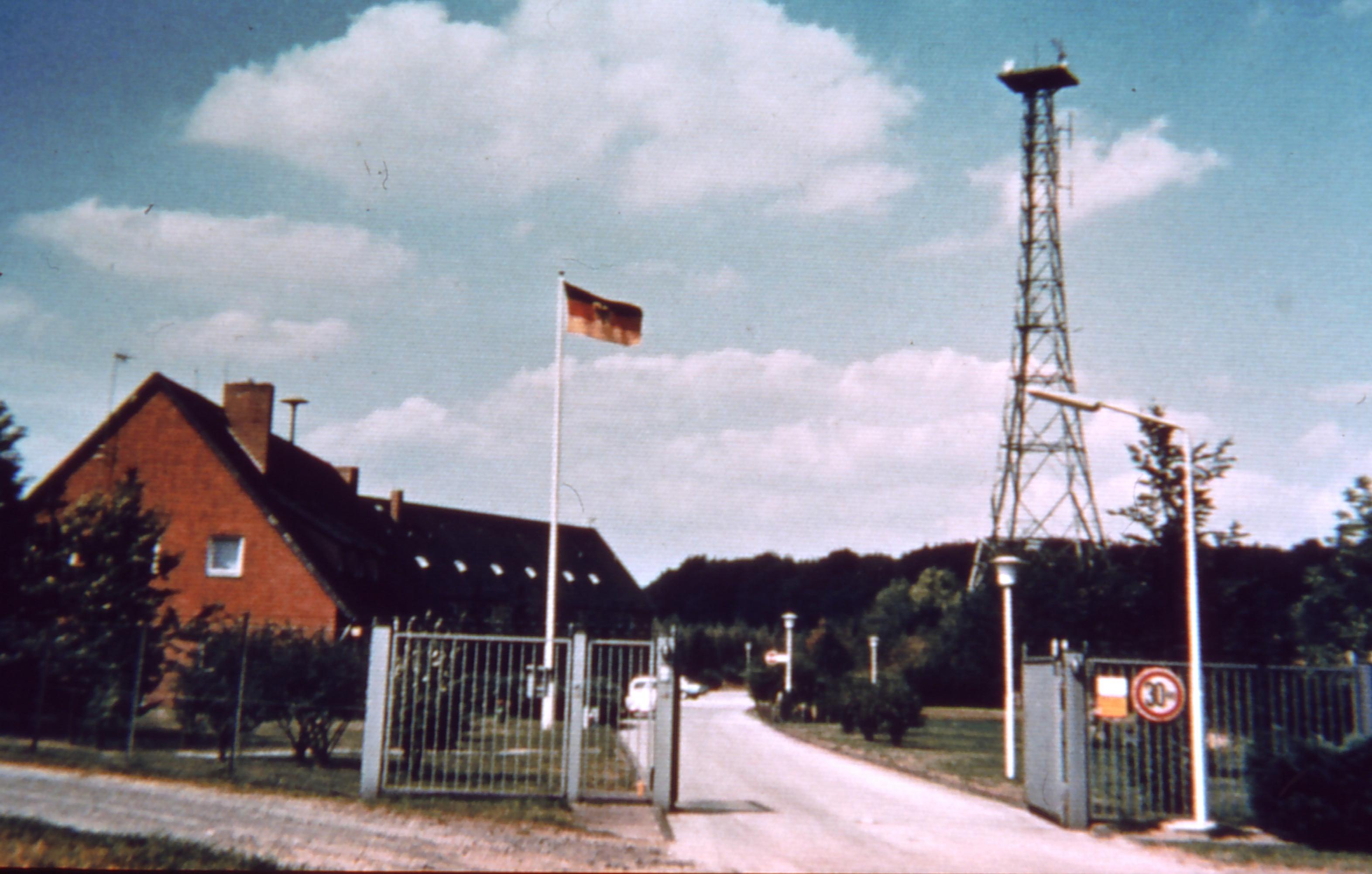 Main entrance of Warnamt II in Bassum